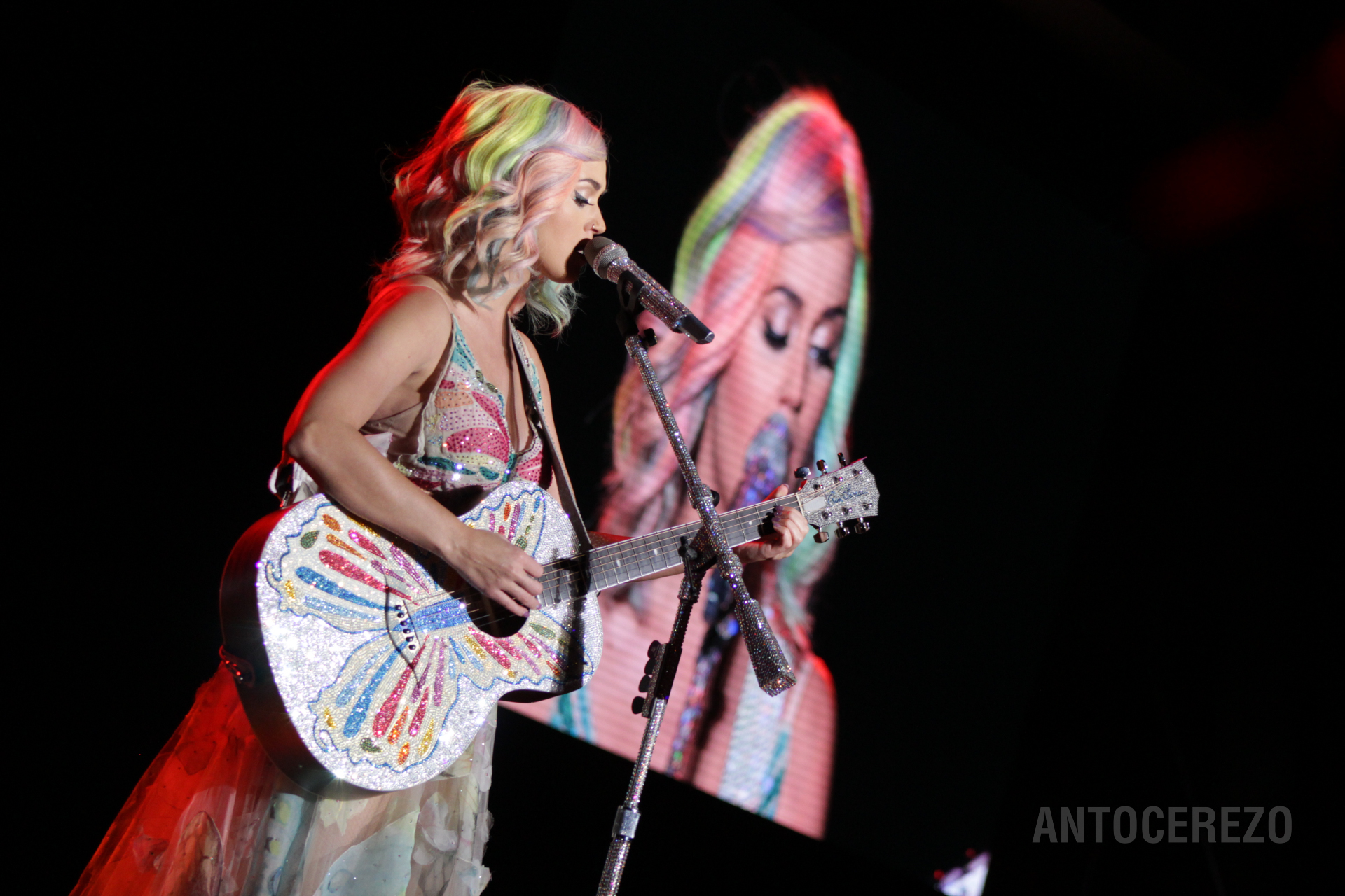 Katy Perry - The Prismatic World Tour Chile